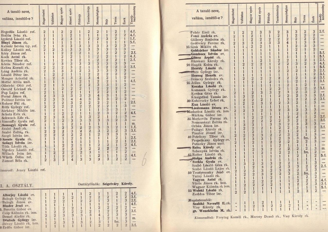 School grades of Árpád Göncz (later President of Hungary) in Werbőczy High School